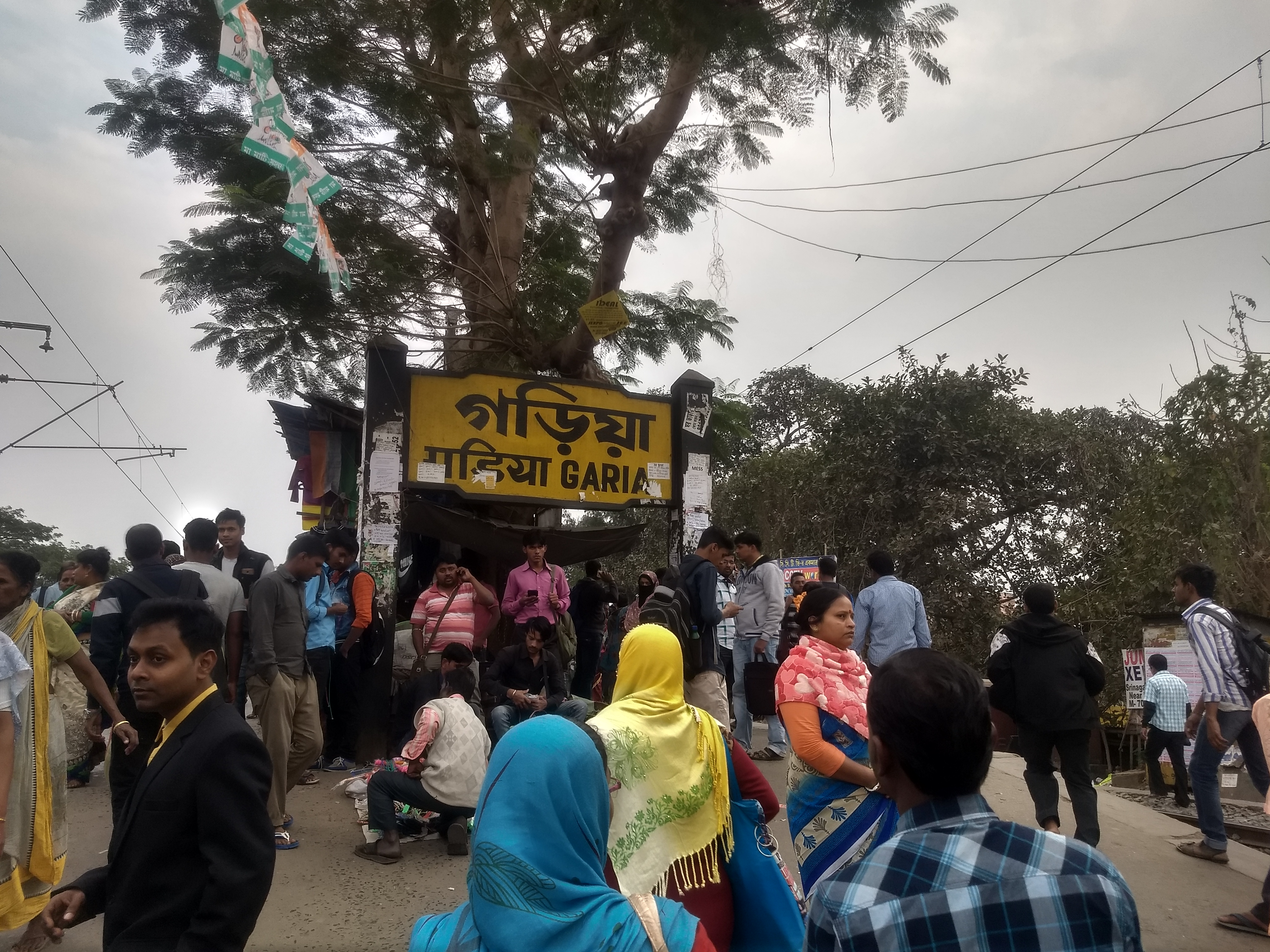 Garia railway station